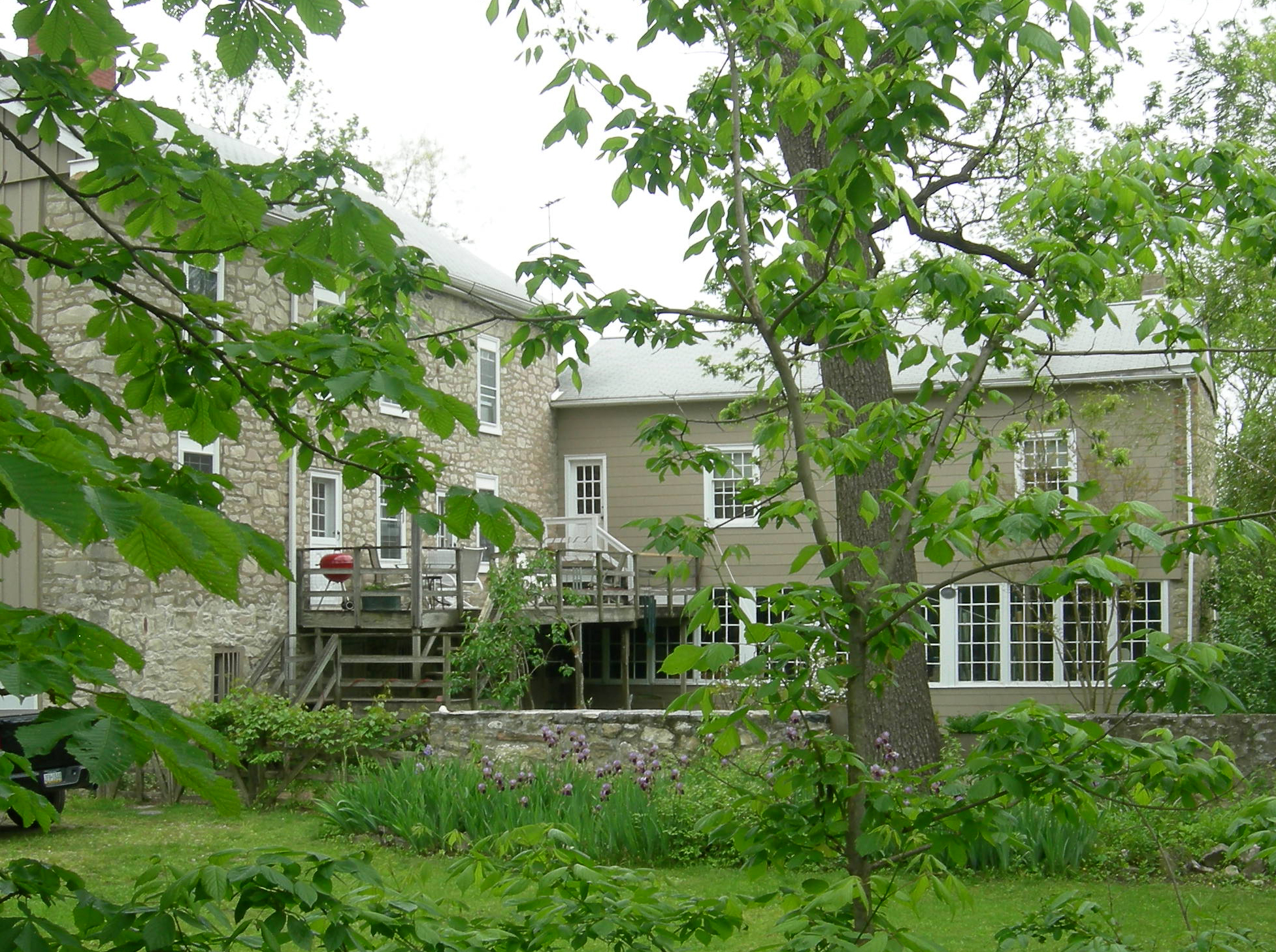 Maulsby Barn (built c.1795), on left, and Abolition Hall (built 1858) on right. George Corson (1803-1860) operated a station on the Underground Railroad, and built Abolition Hall, a meeting room for anti-slavery activists. Frederick Douglas, Harriet Beecher Stowe, William Lloyd Garrison, Lucretia Mott, and other prominent abolitionists lectured here. In the 1880s and 1890s, the room was the studio of painter Thomas Hovenden (1840-1895). The studio also was used by Helen Corson Hovenden, who was both a painter and photographer, and by daughter Martha Maulsby Hovenden, sculptor and painter. Not Stet (talk) 02:39, 7 September 2016 (UTC)